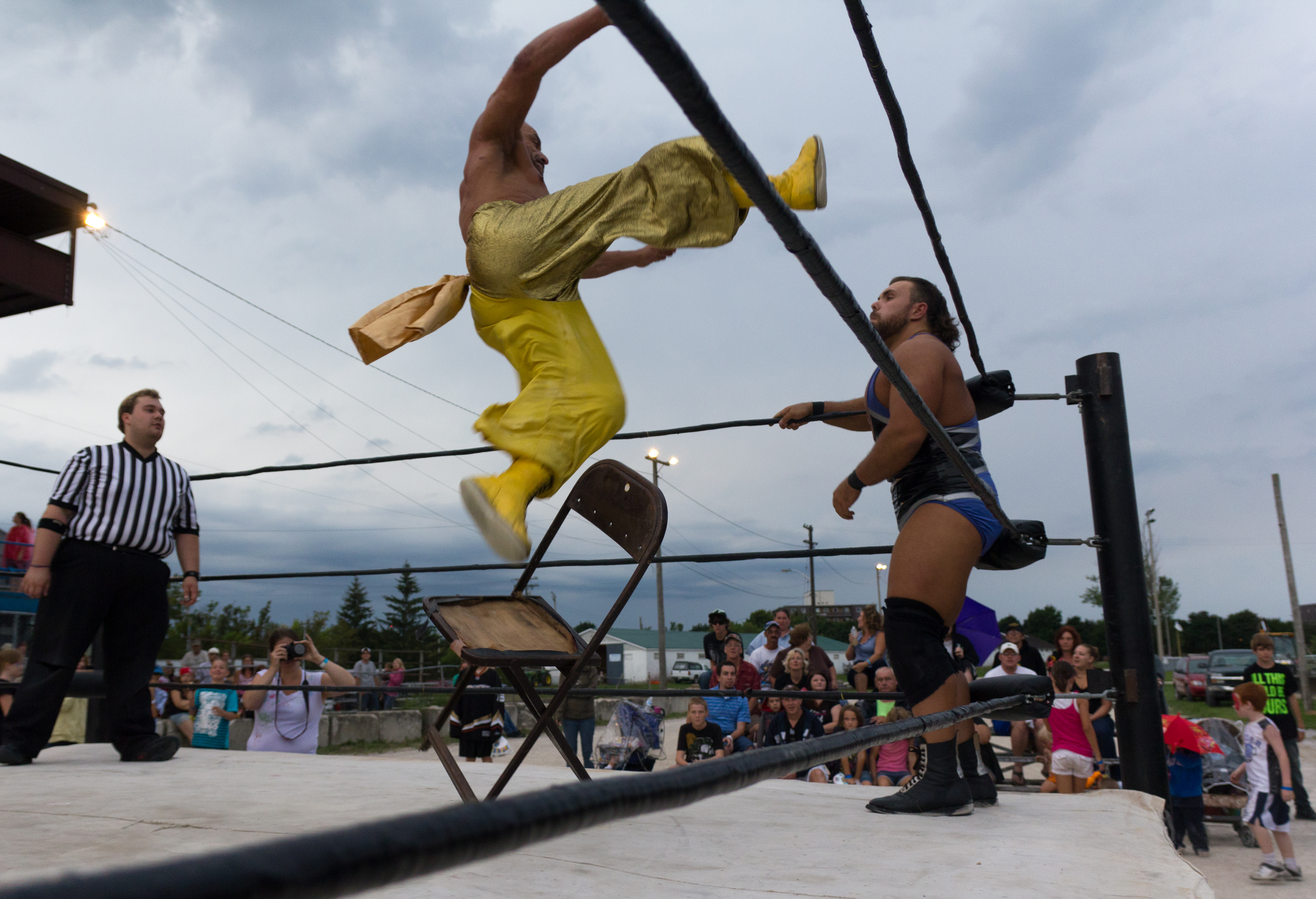 Professional wrestler Sabu (real name Terry Brunk) performing Air Sabu to Michael Elgin